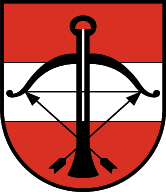 Source: "Fahnen-Gärtner GmbH, Mittersill" This file depicts a coat of arms. The composition of coats of arms are generally public domain with respect to copyright laws, and may be reproduced freely. This corresponds to the international traditional usage, and is explicitly stated in some national copyright laws. Some compositions, of more recent origin, may be copyrighted. This is not a valid license as such, being a "public domain" statement for the coat of arms definition only. It must be completed with the copyright tag associated to the picture creation. See Commons:Coats of arms for further information. Please note that this applies only to the coat of arms definition (composition / description). The representation of a coat of arms is an artistic creation, subject as such to copyright laws. Restriction of use - Legal notice: Most of the time, the usage of coats of arms is governed by legal restrictions, independent of the status of the depiction shown here. A coat of arms represents its owner. Though it can be freely represented, it cannot be appropriated, or used in such a way as to create a confusion with or a prejudice to its owner. Usage on Commons: Please provide licence information for the coat of arm representation, information for the author of the picture, and the source if not self-made work. This image is in the public domain according to Austrian copyright law because it is part of a law, ordinance or official decree issued by an Austrian federal or state authority, or because it is of predominantly official use. (§7 UrhG) To uploader: Please provide where the image was first published and who created it.